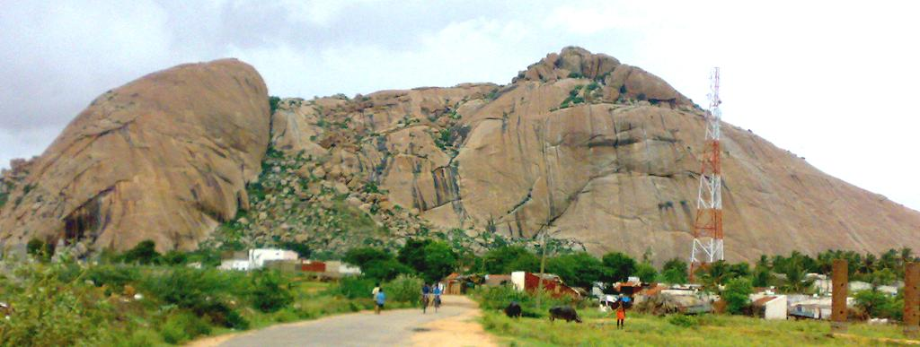 betta